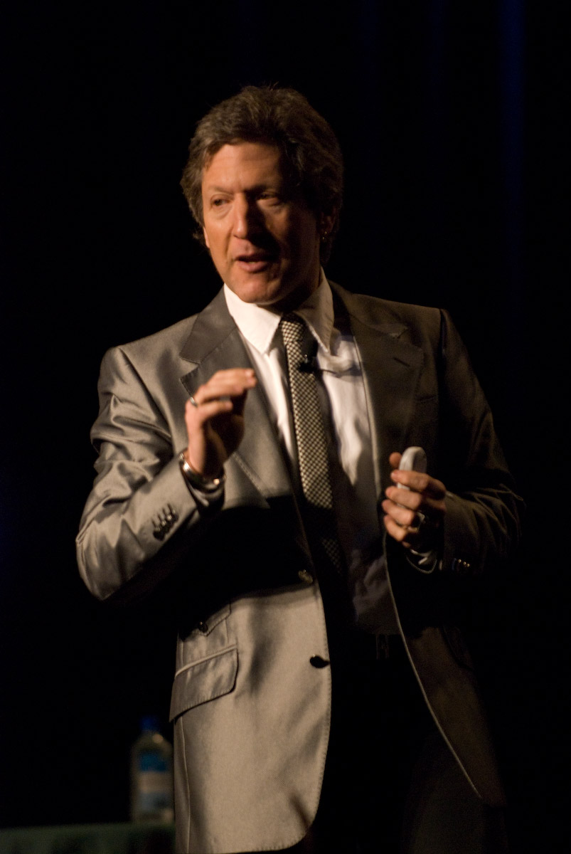 Strategy & Innovation Forum - Andy Nulman, Airborne Mobile